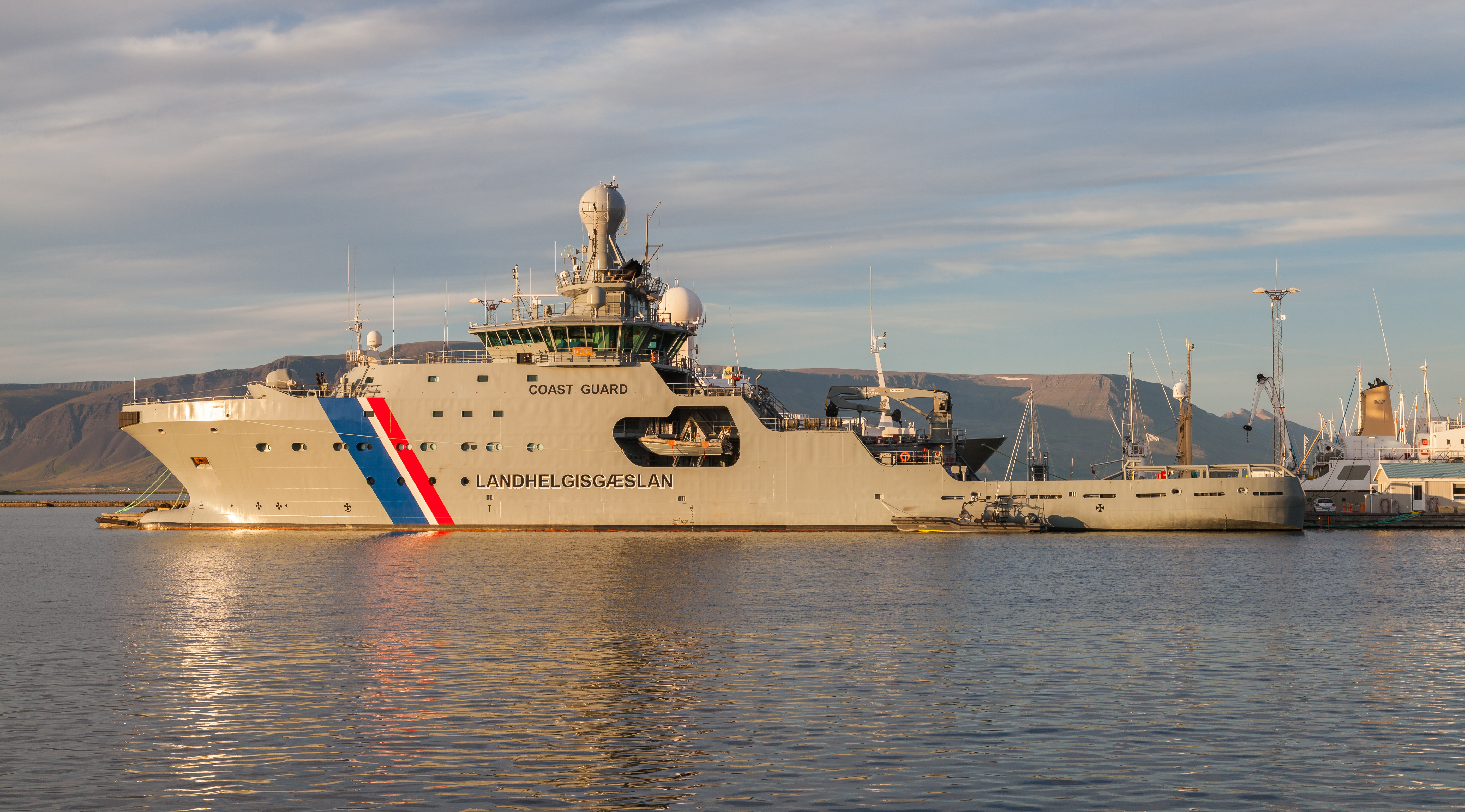 Icelandic Coast Guard, Reykjavik harbour, Capital Region, Iceland